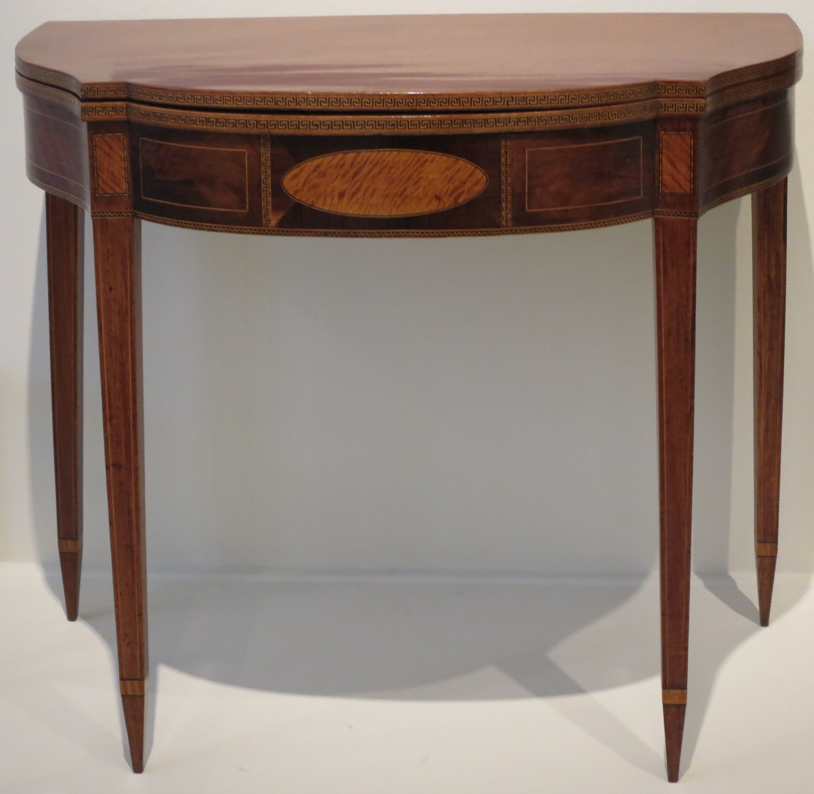 American card table made by Elisha Tucker, c. 1800-1815, mahogany, Honolulu Museum of Art, accession 3819.1